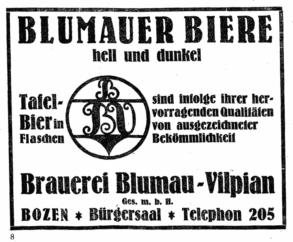 Advertisement for Blumauer Biere in South Tyrol's Telephone directory from 1925 (Bozen-Bolzano)